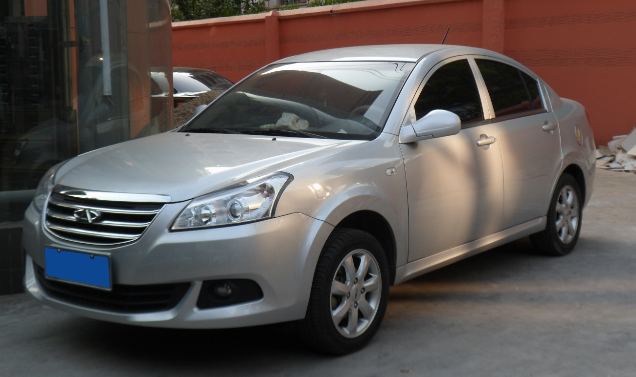 Chery E5 photographed in Shanghai, China.